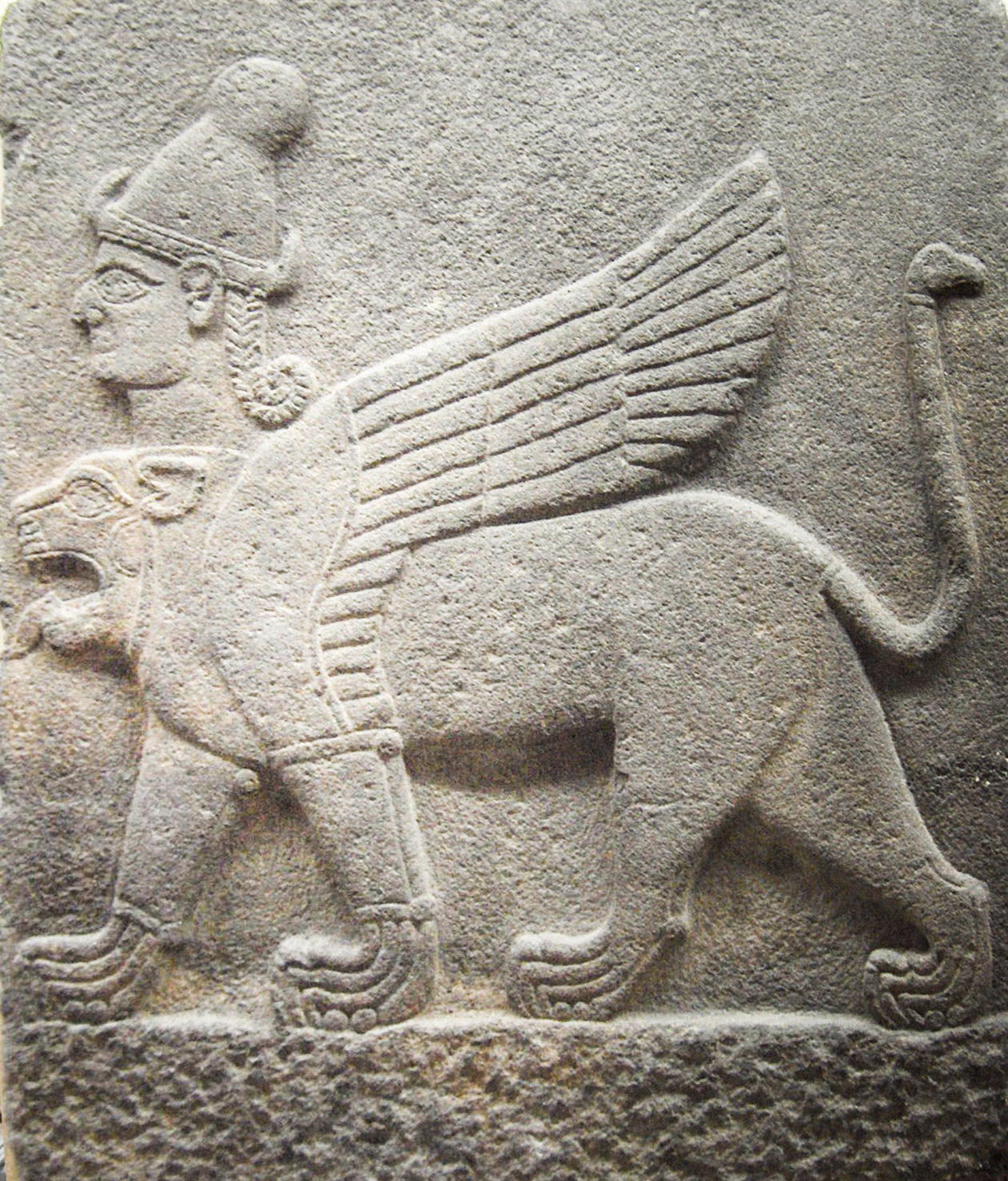 Chimera with a human head and a lion's head; the hooked nose of the human head points to a Luvian or Hittite ethnic origin; from Herald's wall, Carchemish ; 850-750 BC; Late Hittite style under Aramaean influence. Museum of Anatolian Civilizations, Ankara, Turkey